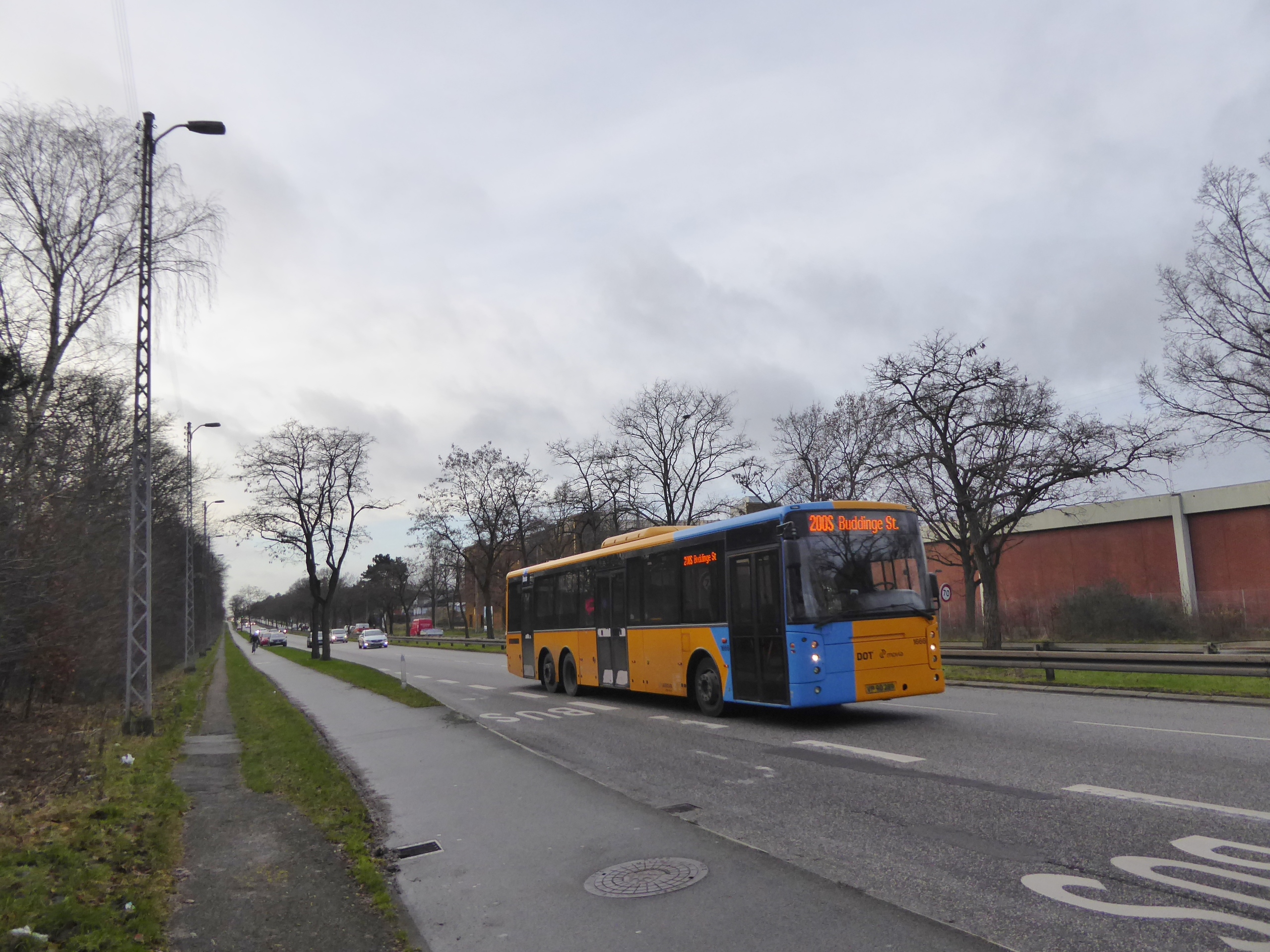 Movia bus line 200S on Gladsaxe Ringvej in Gladsaxe in Copenhagen. When the light rail Hovedstadens Letbane opens in 2025 Gladsaxevej Station will be placed here.